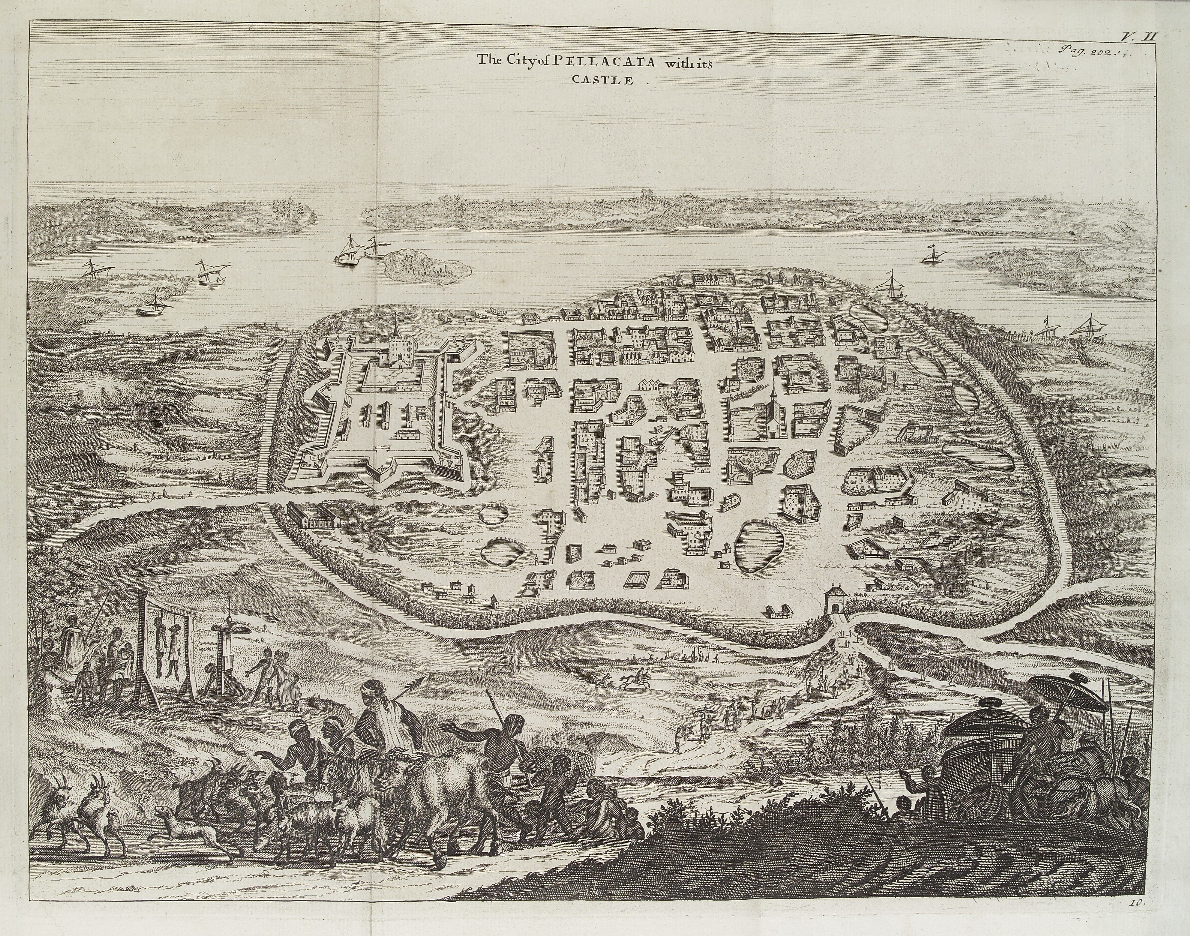 A plan of the city of Pellacata with its Castle. Pulicat, Dutch fortress north of Chennai on India's Coromandel Coast Rare Books Keywords: Dutch East India Company; Andra Pradesh; Fortification; India; Trade; Settlement